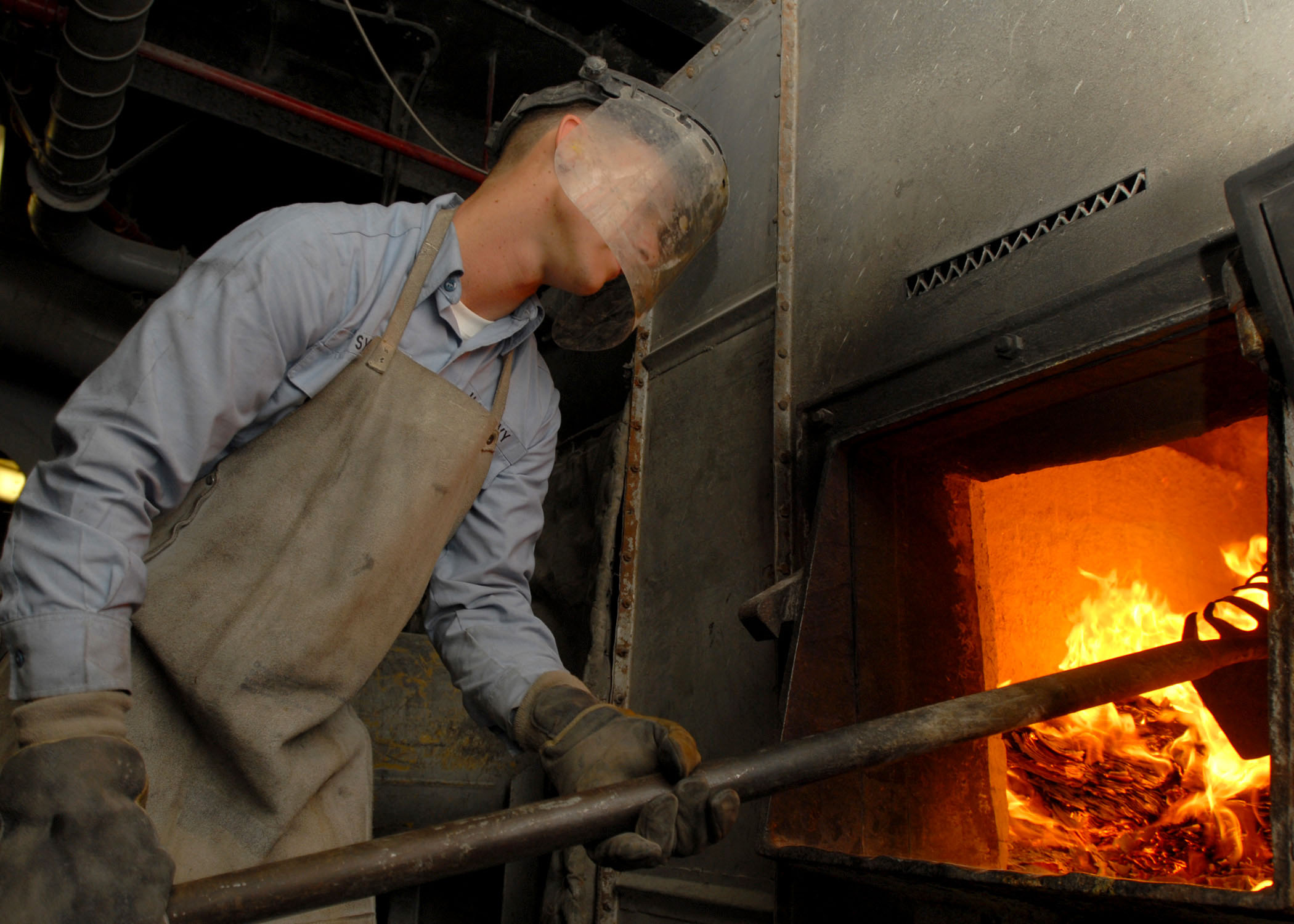 ATLANTIC OCEAN (Oct. 3, 2008) Aviation Electronics Technician Airman Eric Syck burns trash in the incinerator aboard the aircraft carrier USS Theodore Roosevelt (CVN 71). The Nimitz-class aircraft carrier and embarked Carrier Air Wing (CVW) 8 are underway on a scheduled deployment. U.S. Navy photo by Mass Communication Specialist 3rd Class John Suits/Released)